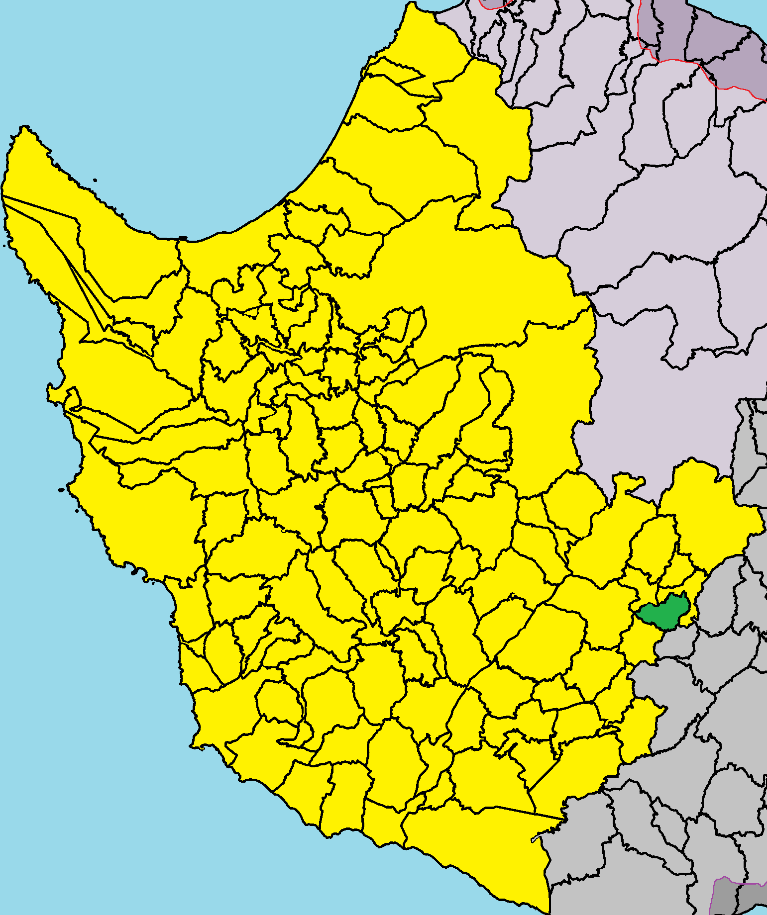 Kedares in Paphos District.